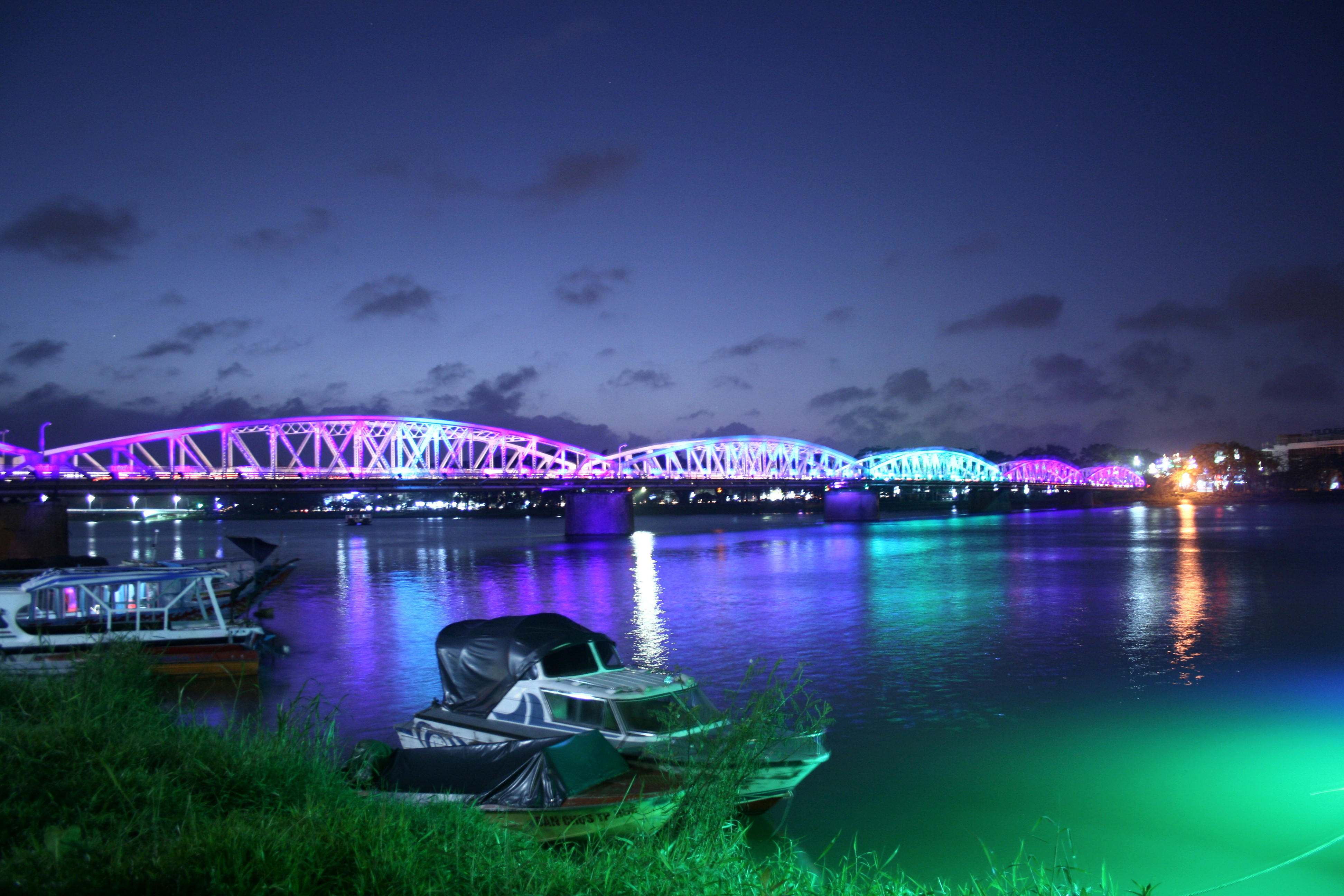 Truong Tien Bridge is reflected in the Huong River (at night), Hue, Viet Nam